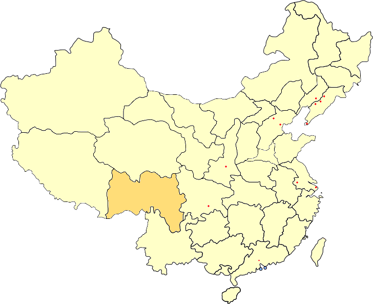 Xikang province PRC